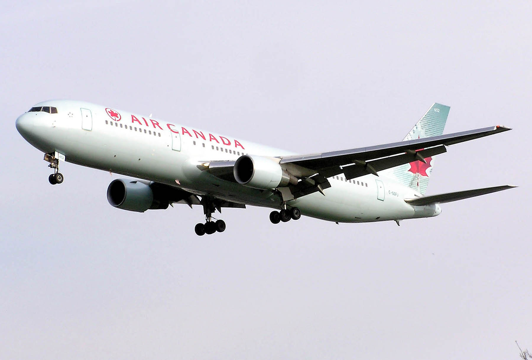 Air Canada Boeing 767-300 (C-GGFJ) landing at London (Heathrow) Airport, England.